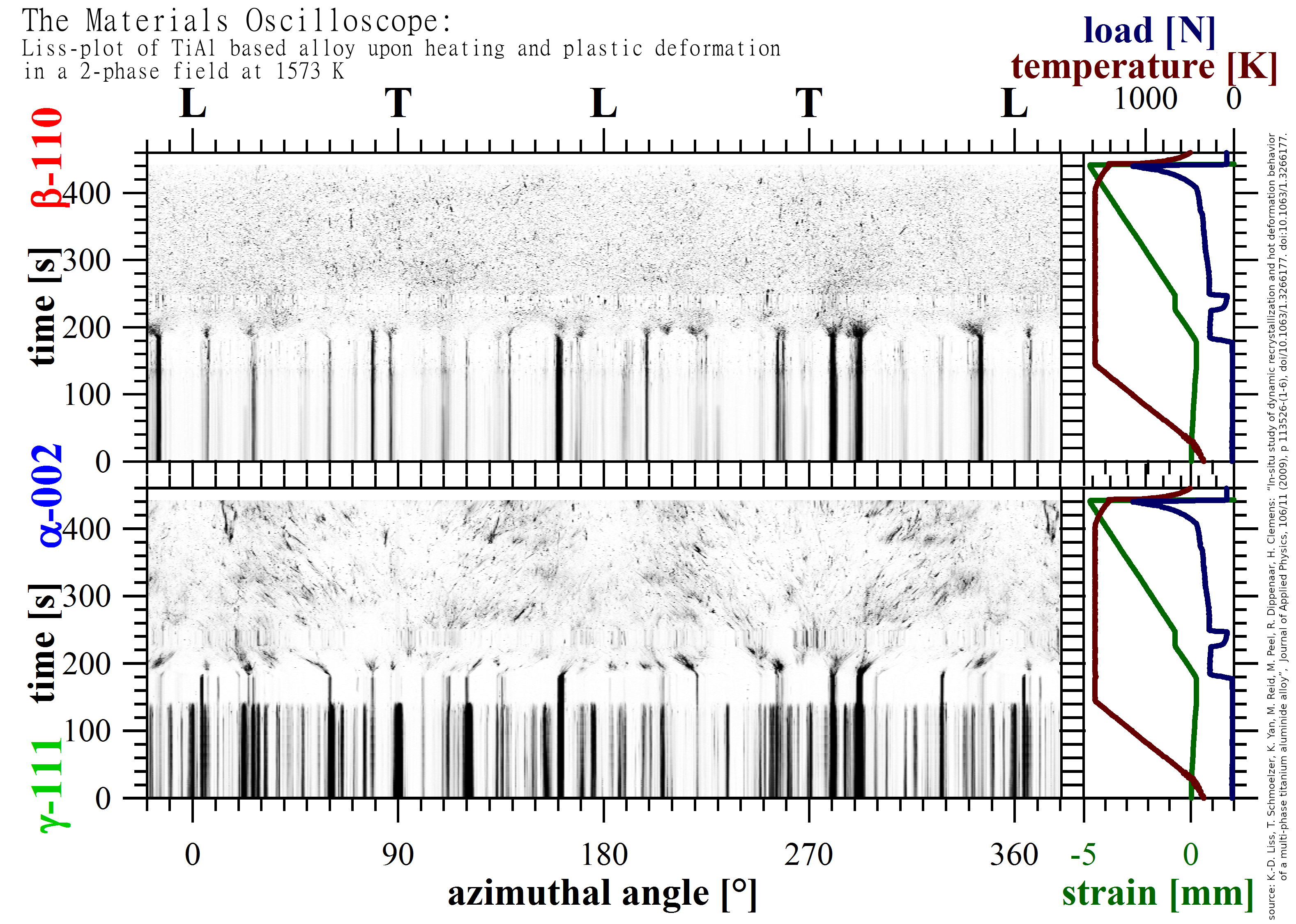 Azimuthal-angle/time plots, also called Liss-plots, of a titanium aluminide alloy in a materials oscilloscope. Liss-plots of both the alpha and beta phase are shown upon plastic deformation at 1573K.